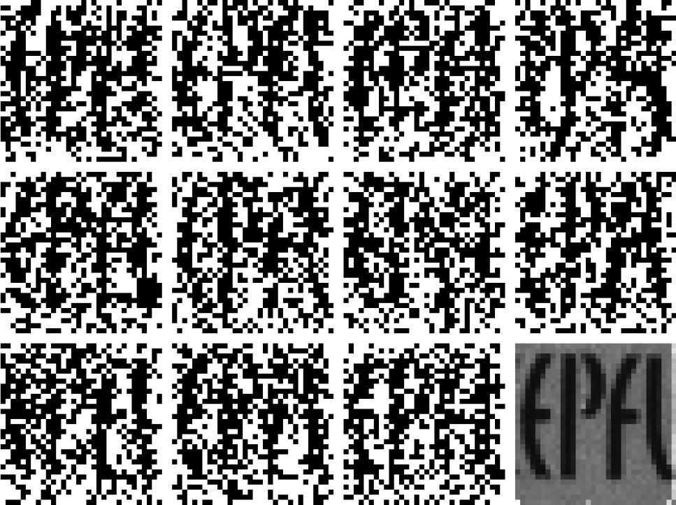 The binary images of EPFL, and a continuous tone image.